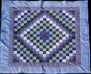 Patchwork